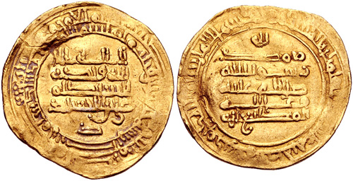 ISLAMIC, Egypt & Syria (Pre-Fatimid). Ikhshidids. Abu'l-Hasan 'Ali. AH 349-355 / AD 960-966. AV Dinar (22mm, 3.97 g, 4h). Misr (Fustat) mint. Dated AH 350 (AD 961/2). Bacharach 91; SICA 6, 200-1; Album 678. VF, crimped and wavy flan, traces of deposits.